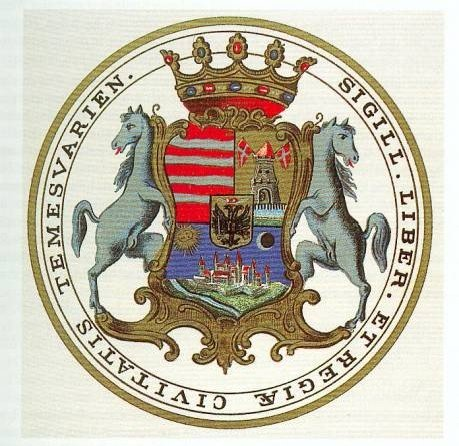 The coat of arms of the town Timisoara, Romania, in the 18th century.